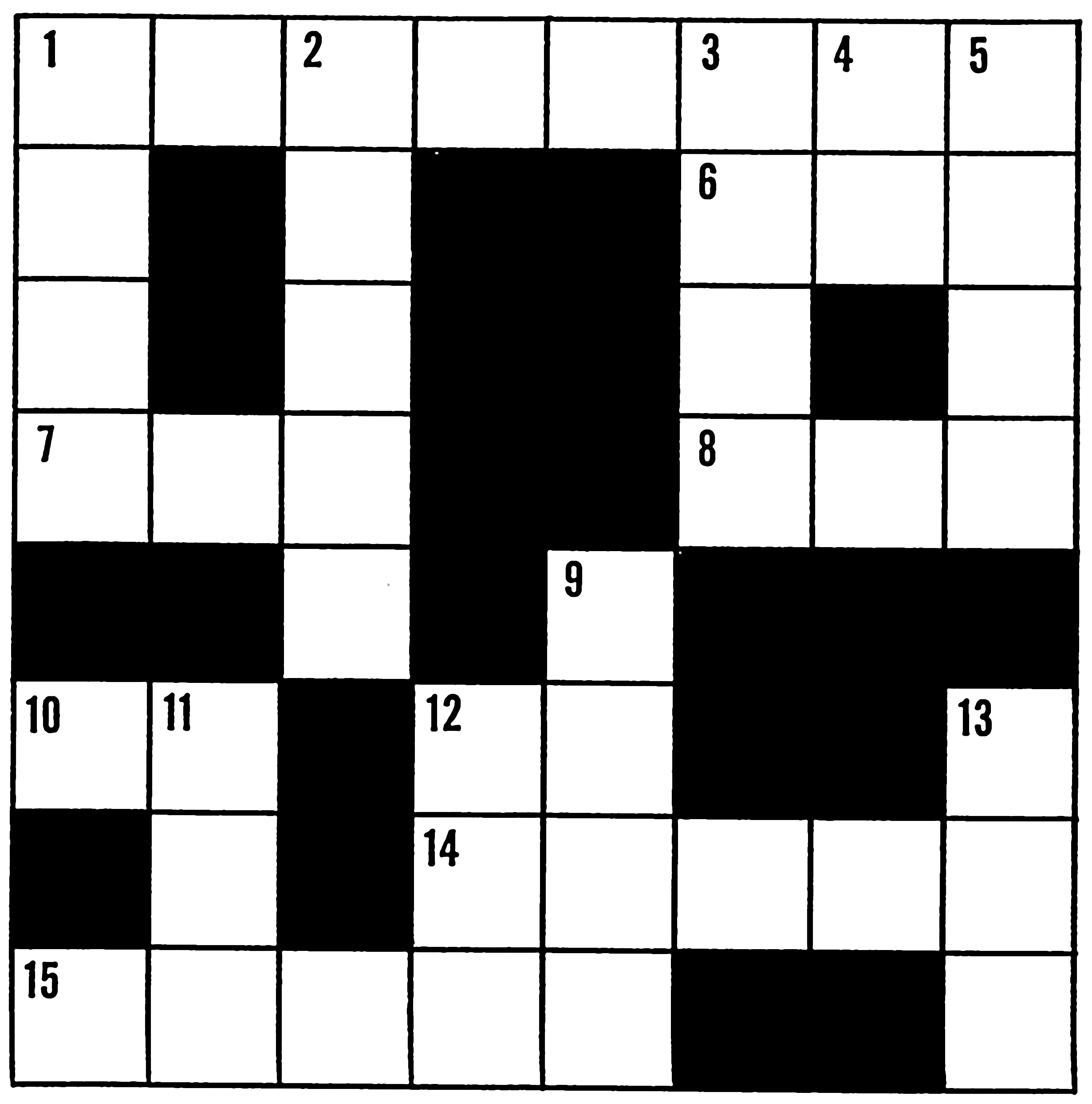 Line art drawing of a crossword puzzle.